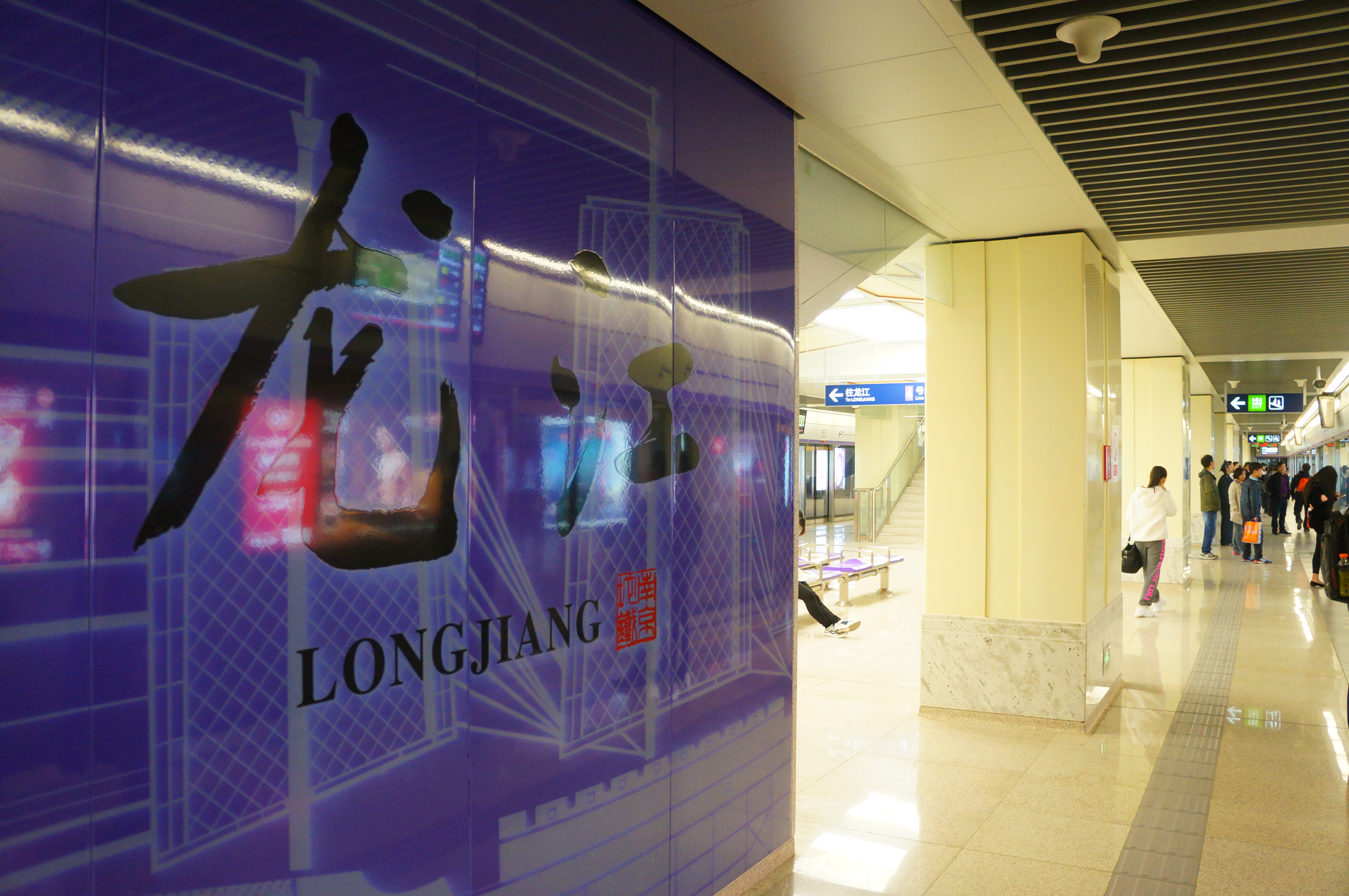 201704 Longjiang Station, Nameboards at L4 Stations are terribly reflective.